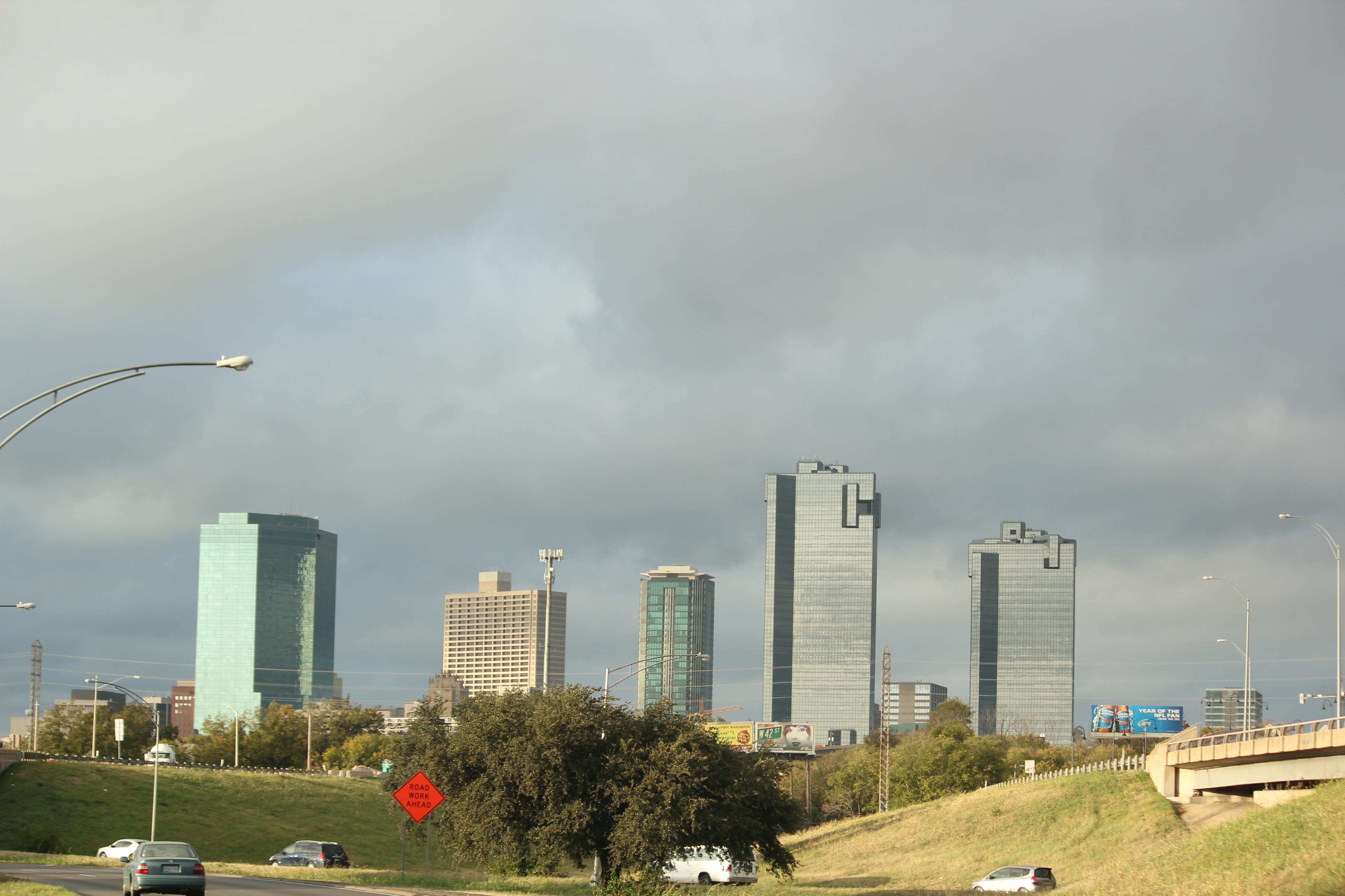 west side view of Downtown Fort Worth